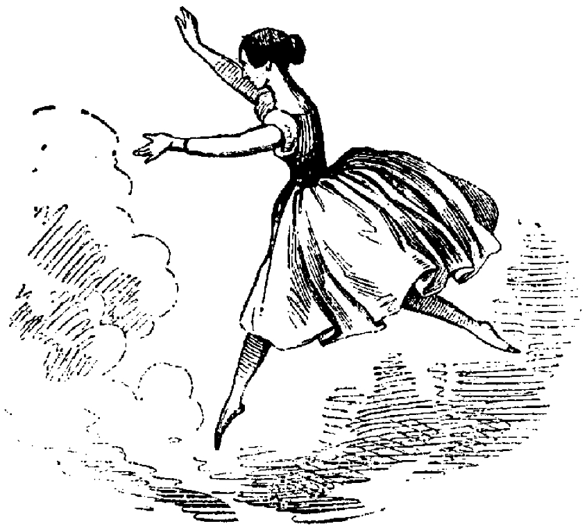 ballerina